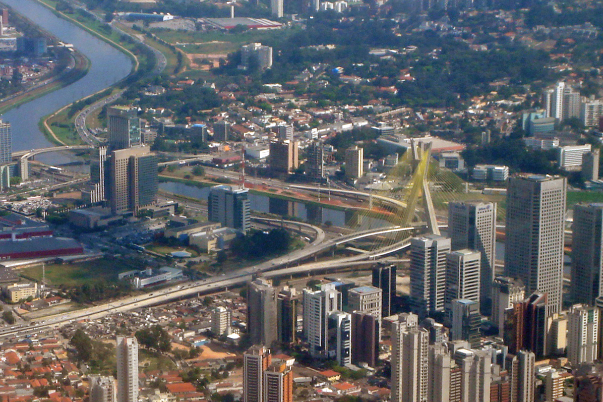 Bridge Octavio Frias de Oliveira, Sao Paulo city